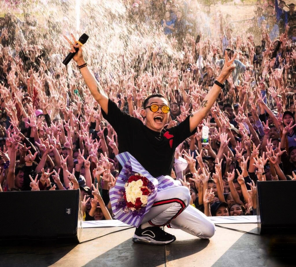 Htet Yan is a famous singer in Myanmar.